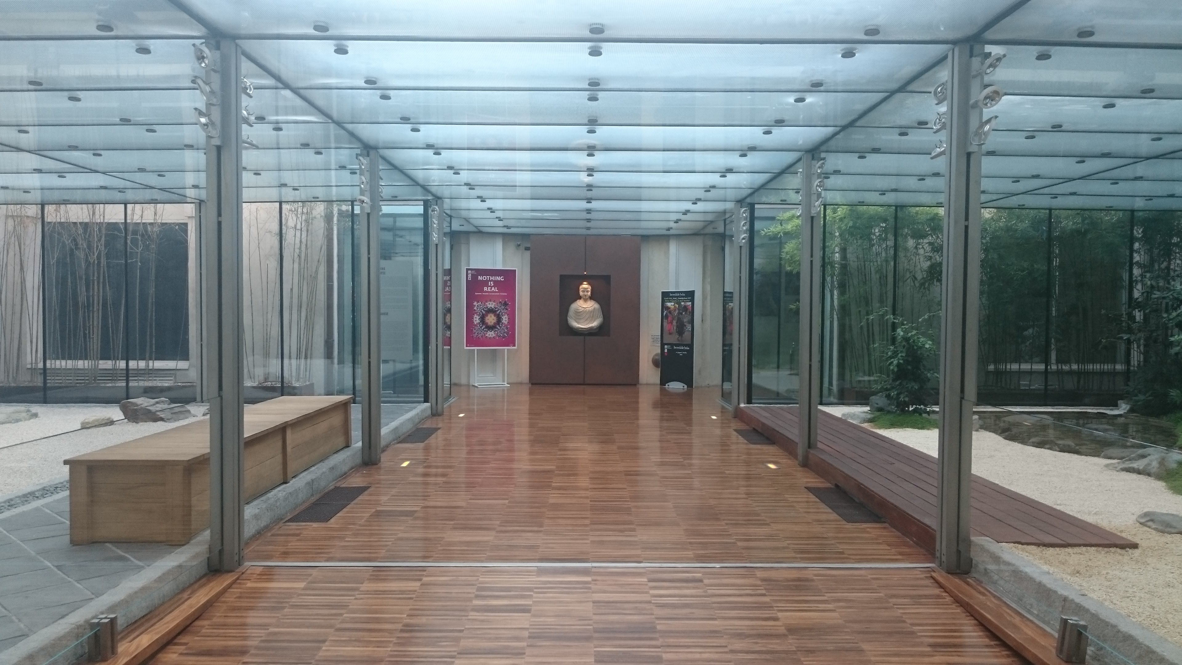 Museum of oriental art - entrance - Turin This is a photo of a monument which is part of cultural heritage of Italy.